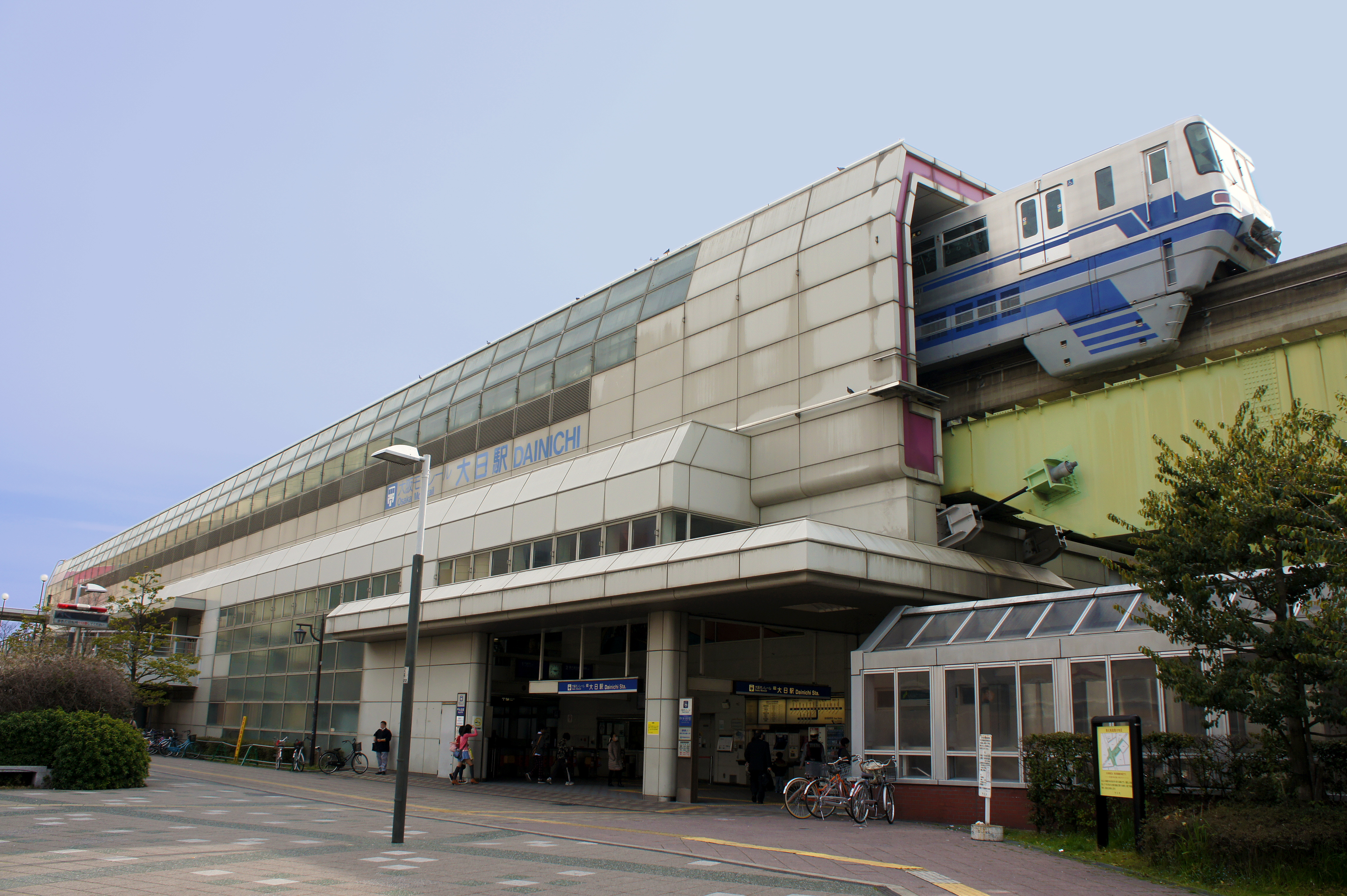 Osaka Monorail Dainichi Station, Dainichi-higashimachi Moriguchi-shi Osaka Japan.